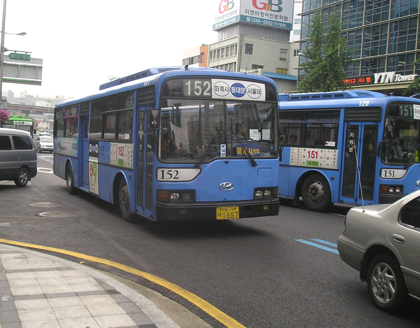 The Seoul city blue bus route 152.